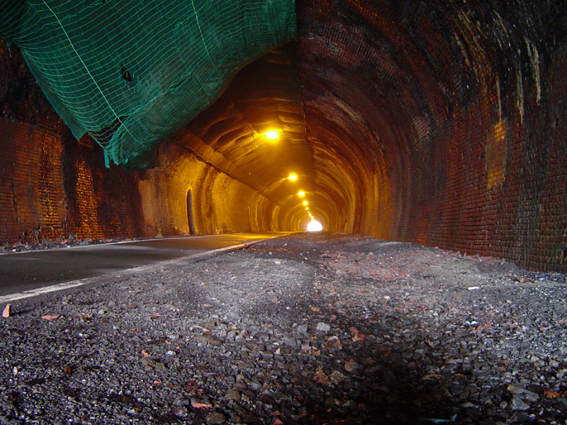 Disused railway tunnel (Tunnel of Hour-Havenne) now converted to pedestrian and bicycle use, near Houyet, Belgium.